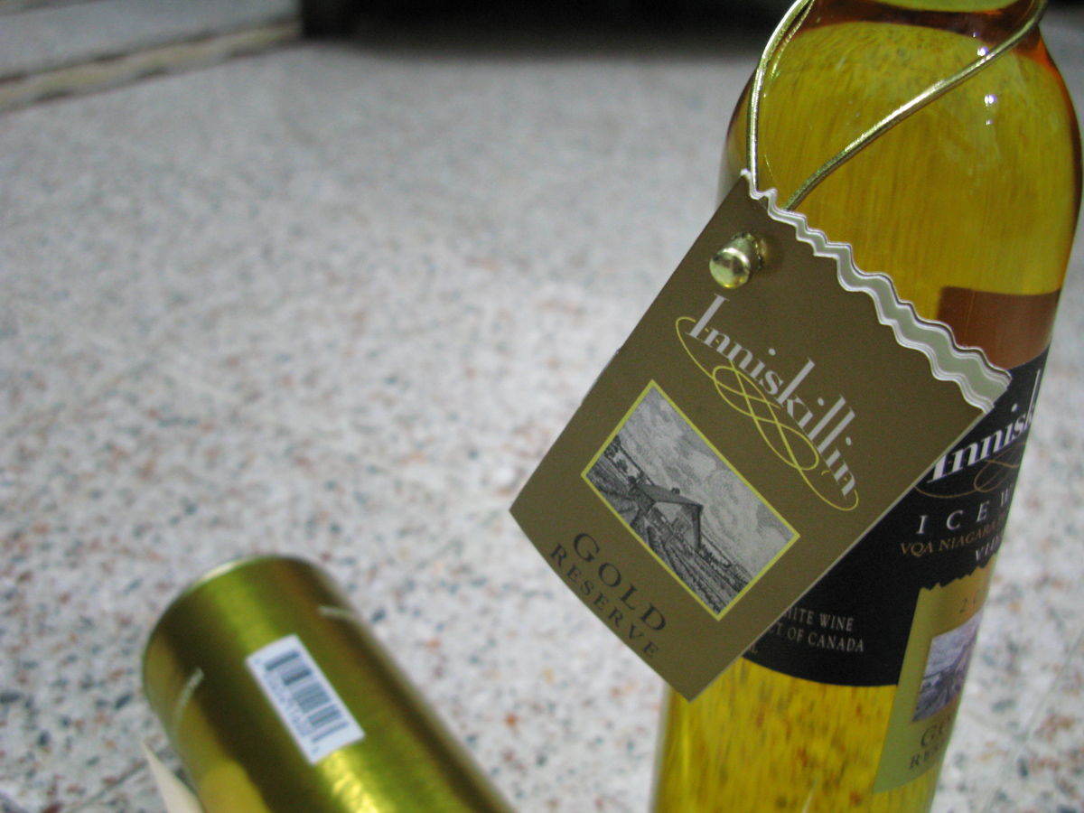 A bottle of Canadian ice wine from Inniskillin.